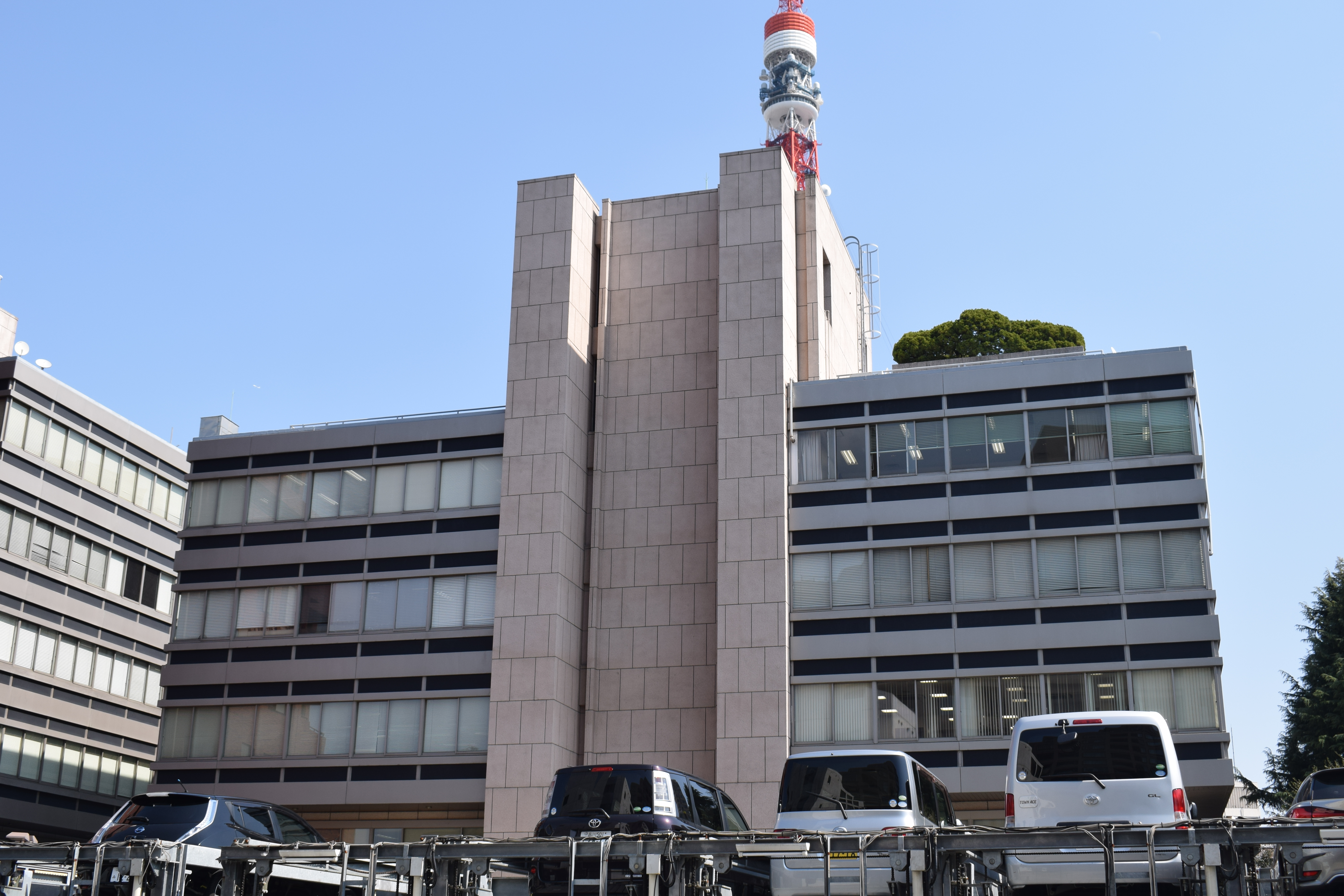 Agriculture & Livestock Industries Corporation (ALIC)